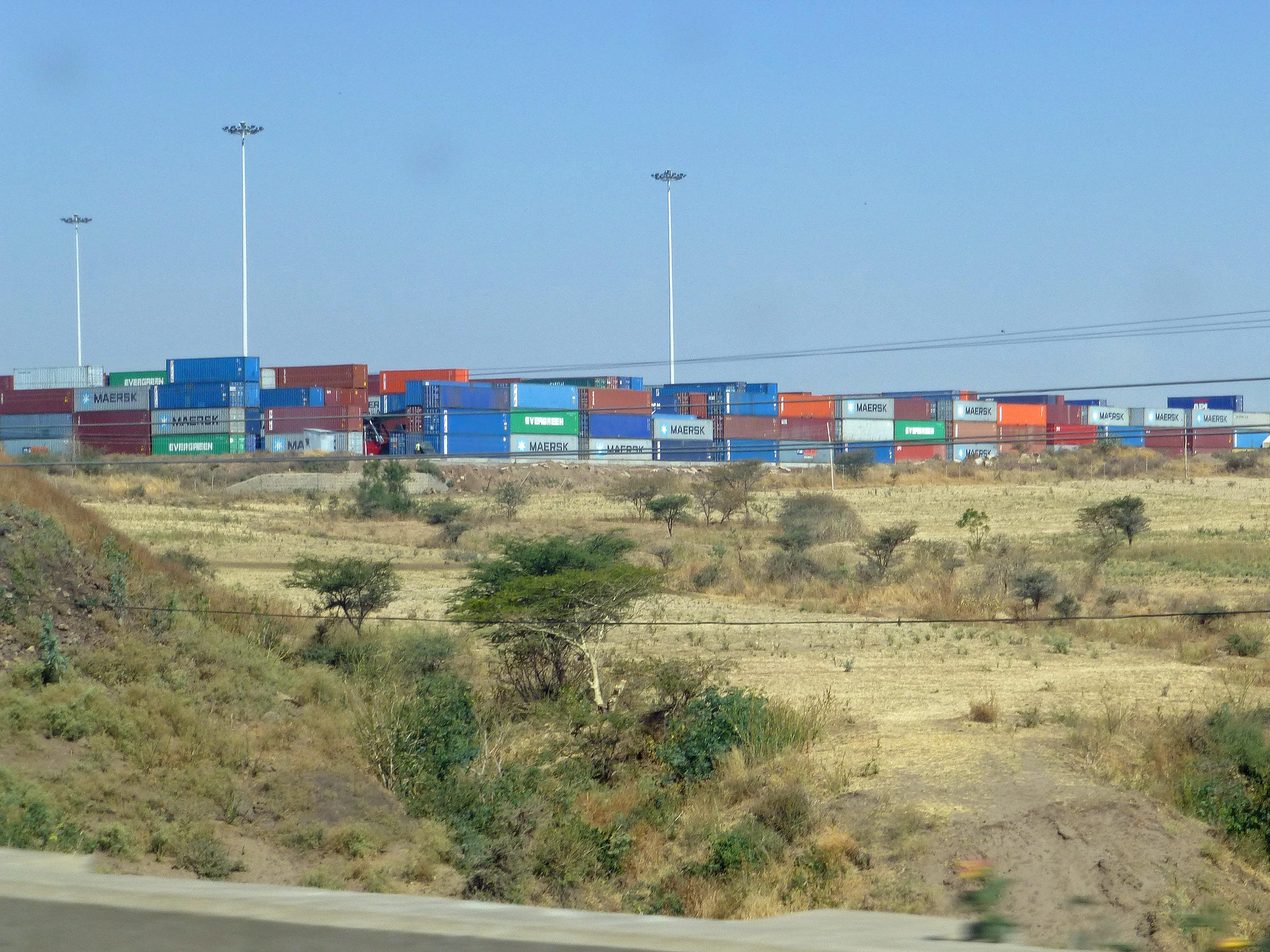 Modjo dry port, as seen from Adama (Oromia, Ethiopia)